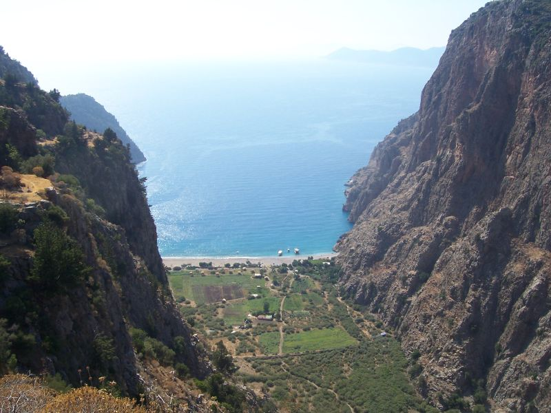 Kelebekler Vadisi, Butterfly Valley as seen from the village of Faralya which is located over the cliffs of the valley